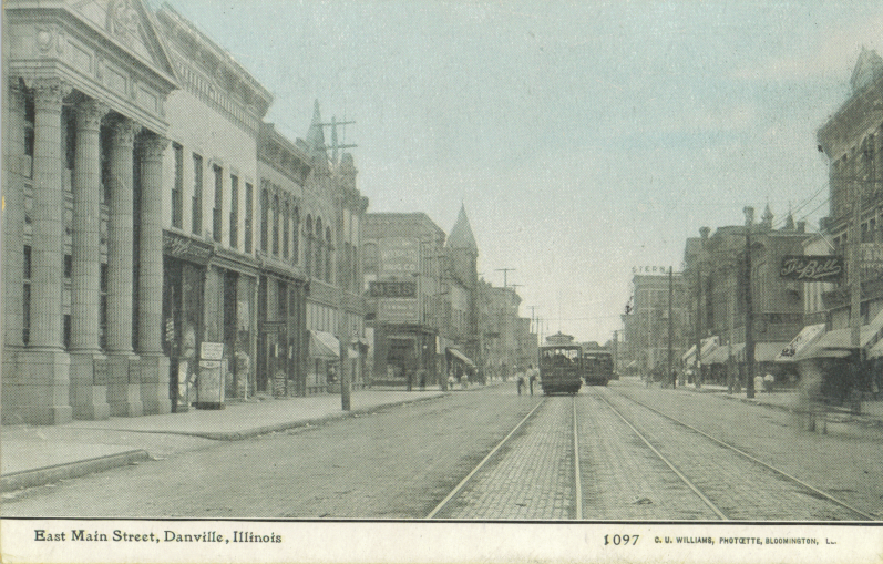 Postcard depicting East Main Street in Danville, Illinois, USA